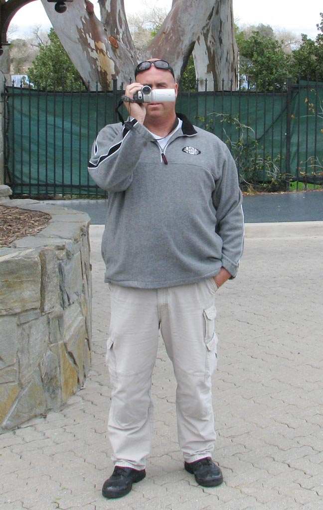 Golden Era Productions Gate - Scientology hired private investigator in "video war" with the Angry Gay Pope